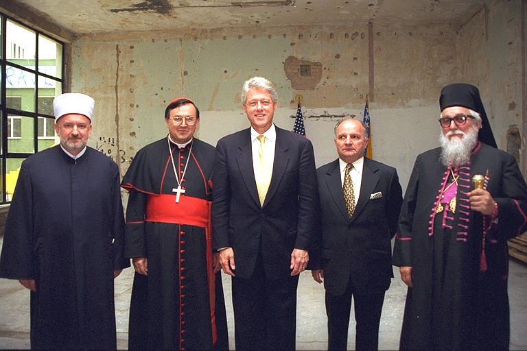 July 30, 1999 (Credit: William J. Clinton Presidential Library) Hosted by the Clinton Library and the Clinton Foundation, the document release was spearheaded by CIA’s Historical Review Program (HRP), which identifies, collects and produces historically relevant collections of declassified materials. The Bosnia collection—the youngest ever released in HRP’s 20-year existence—is available online at A video recording of the symposium is available at